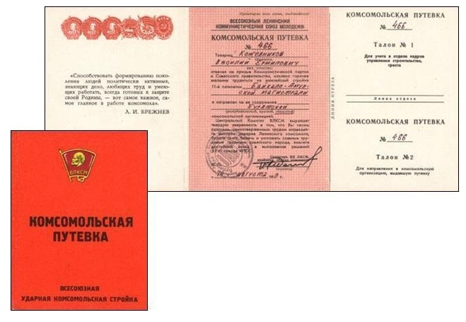 Komsomol direction. Document in the USSR youth guarantee compulsory employment